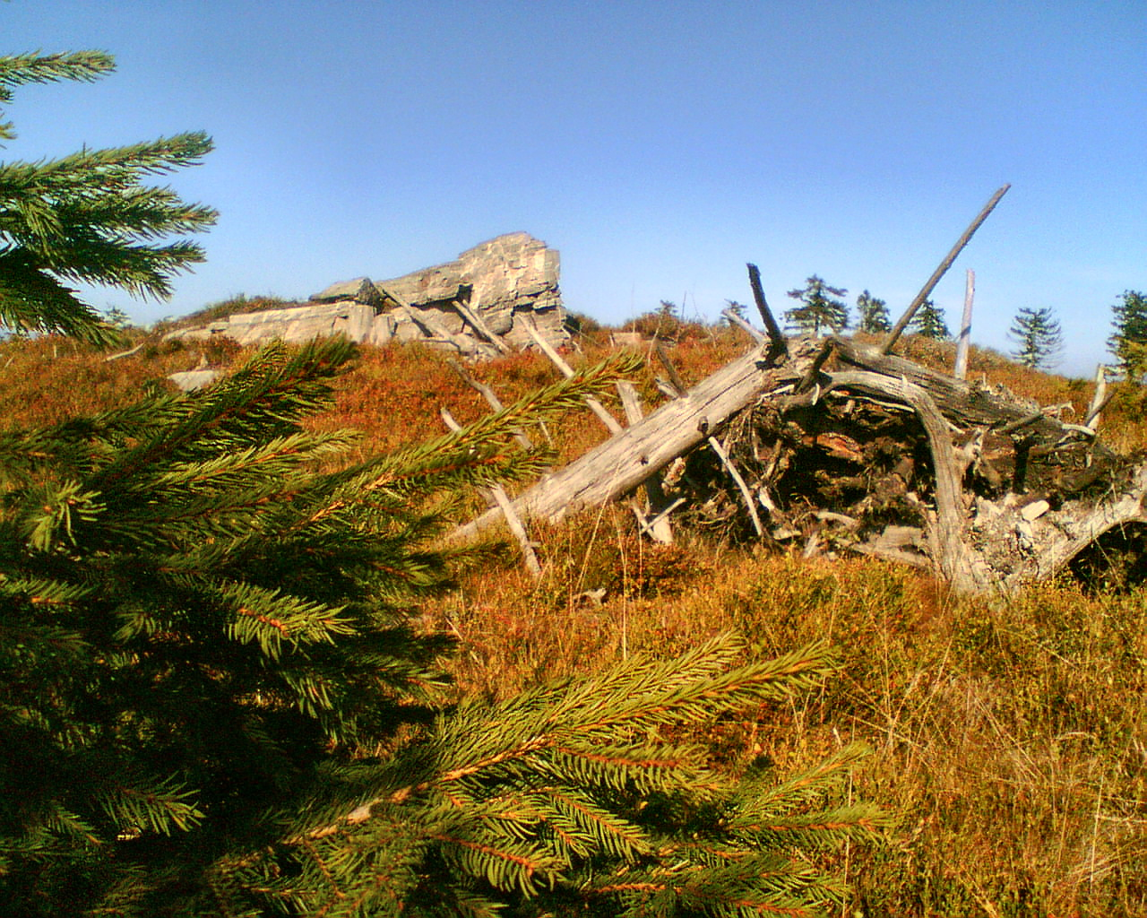 Summit of Travná hora in the Golden Mountains (Rychlebské hory)